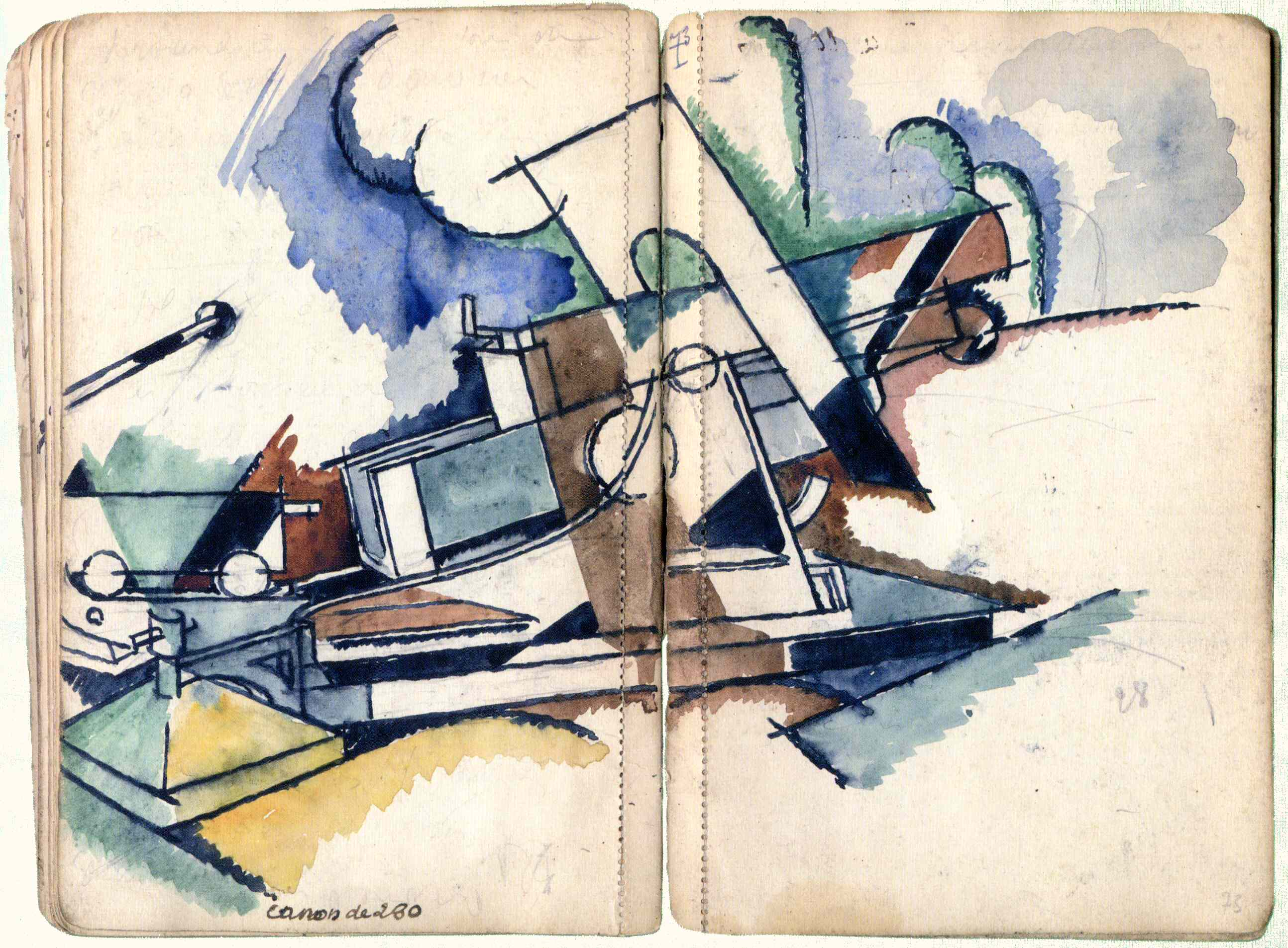 Cubist-type sketch in black ink and watercolour of a 280 calibre first world war field gun, about 1917, by André Mare (1885-1932), an artist who contributed to the development of military camouflage in France.